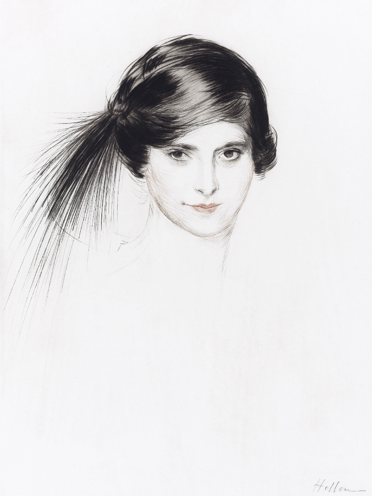 Head of Helena Rubinstein with egret feathers *Etching *70.8 x 53.6 cm *executed circa 1908 *signed l.r.: Helleu